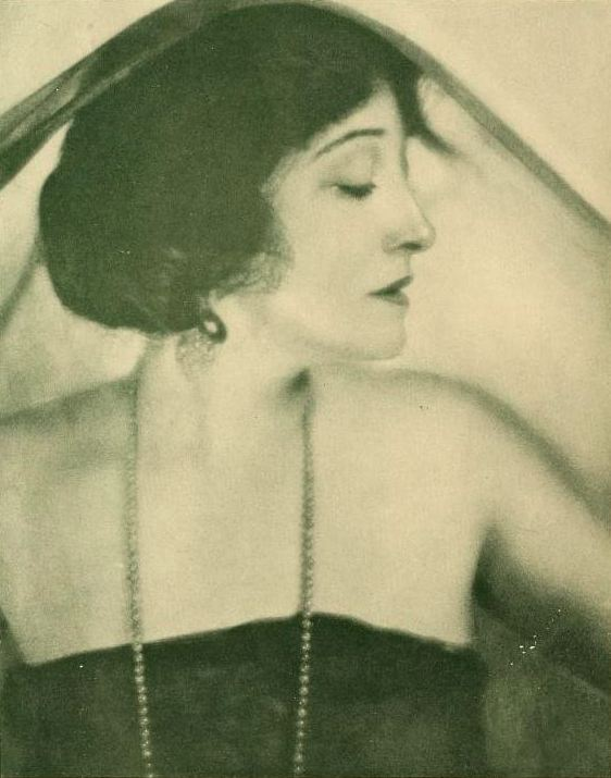 Actress Pauline Frederick, on page 50 of the September 1922 Shadowland.